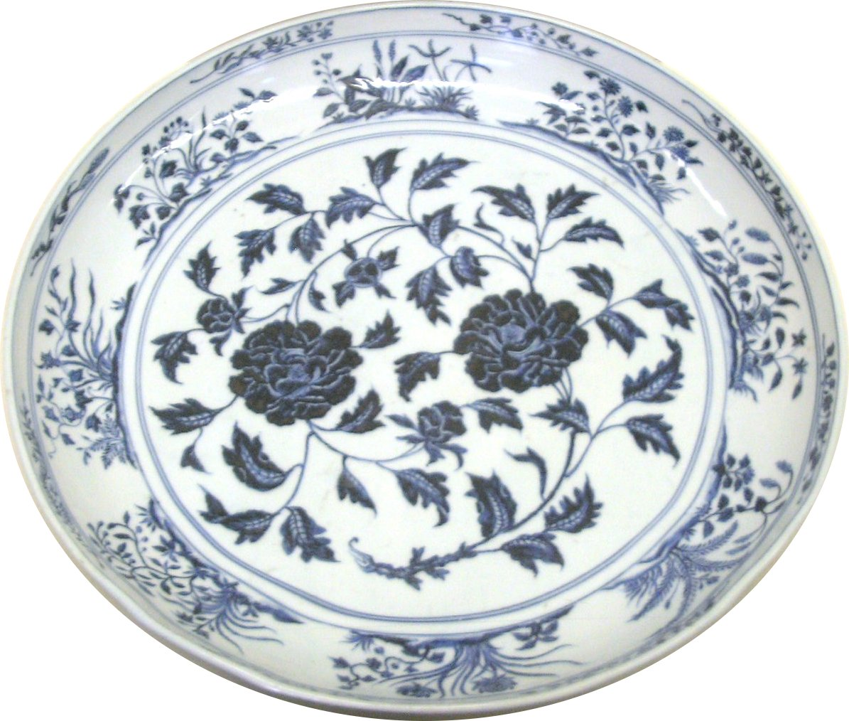 blue and white porcelain dish from the Ming dynasty, located in the china collection of Topkapi Palace. cropped version, from Image:Palace kitchens Topkapi 2007 012.jpg